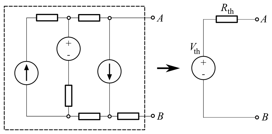 Thevenin equivalent circuit